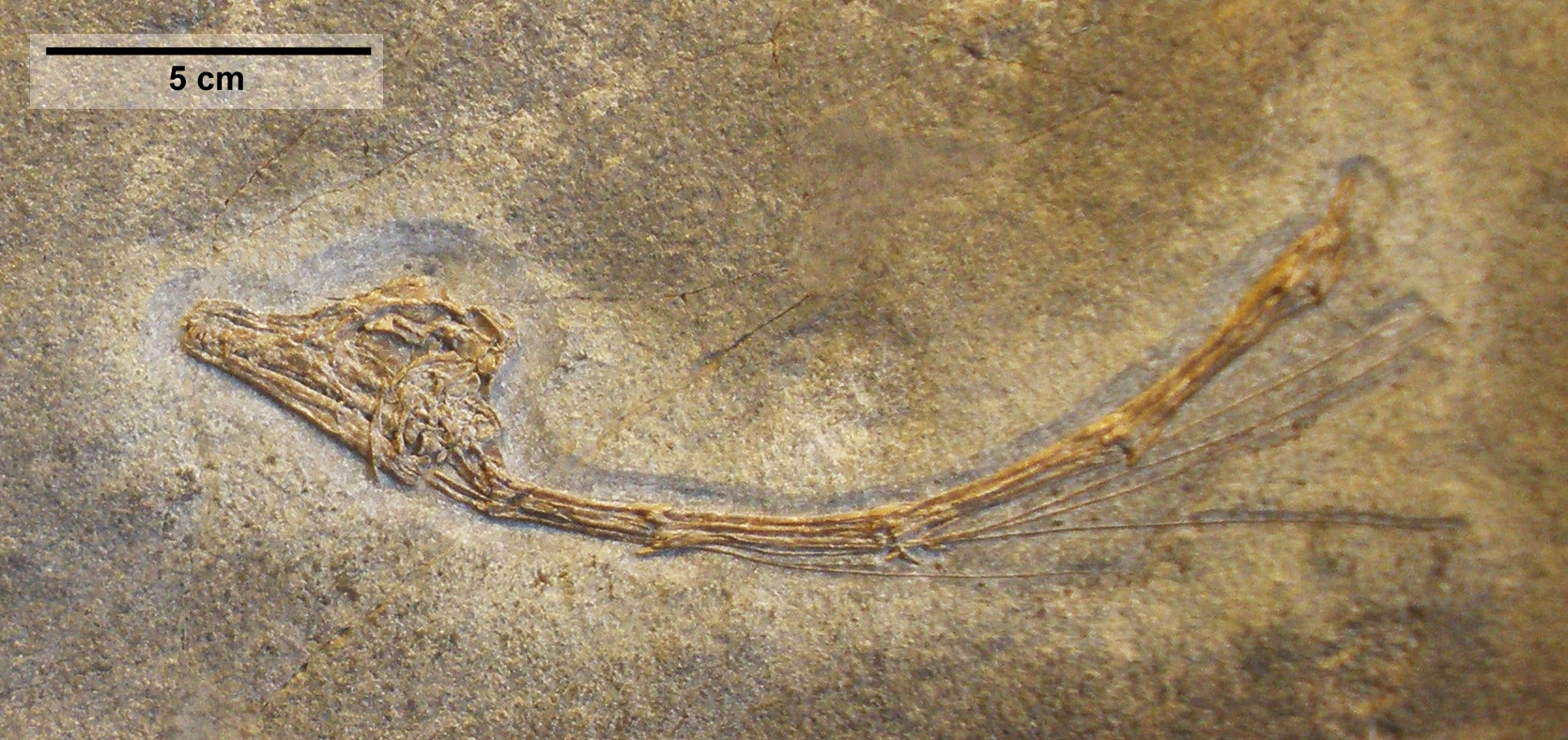 PIMUZ T 3901, a skull and seven distal cervical vertebrae in articulation, the holotype and only known specimen of Tanystropheus meridensis Wild 1980 from the Meride Limestone (upper Middle Triassic) of the Monte San Giorgio, Ticino, Switzerland,[1] on display at the Paläontologisches Museum Zürich.